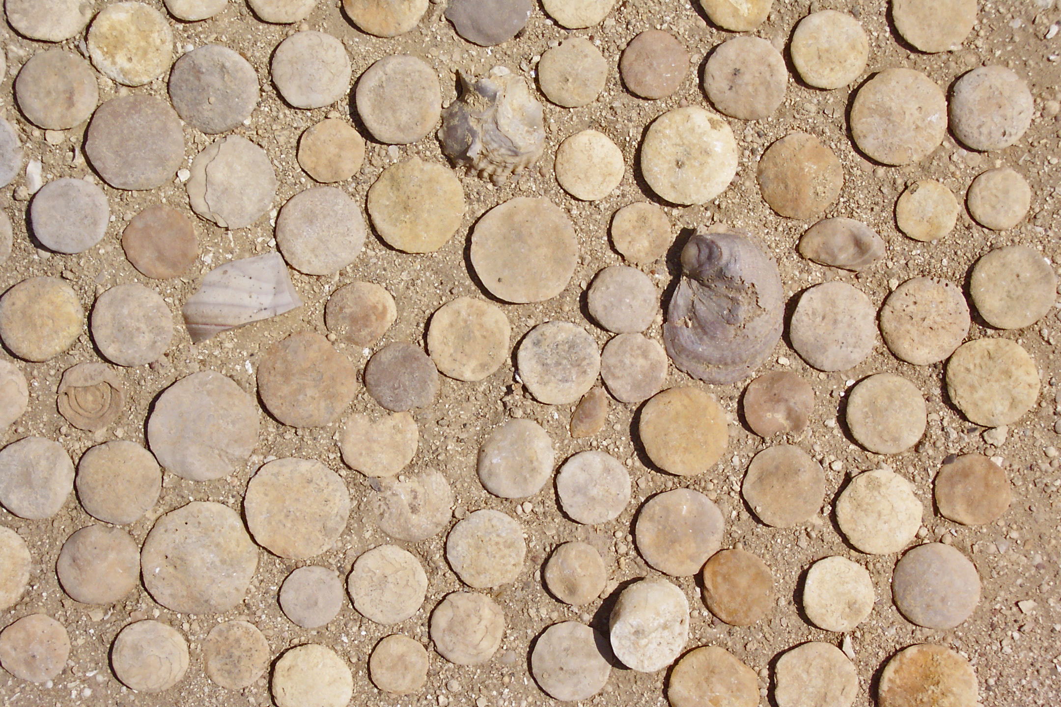 Nummulites and fossilized oysters. Qarara, Egypt